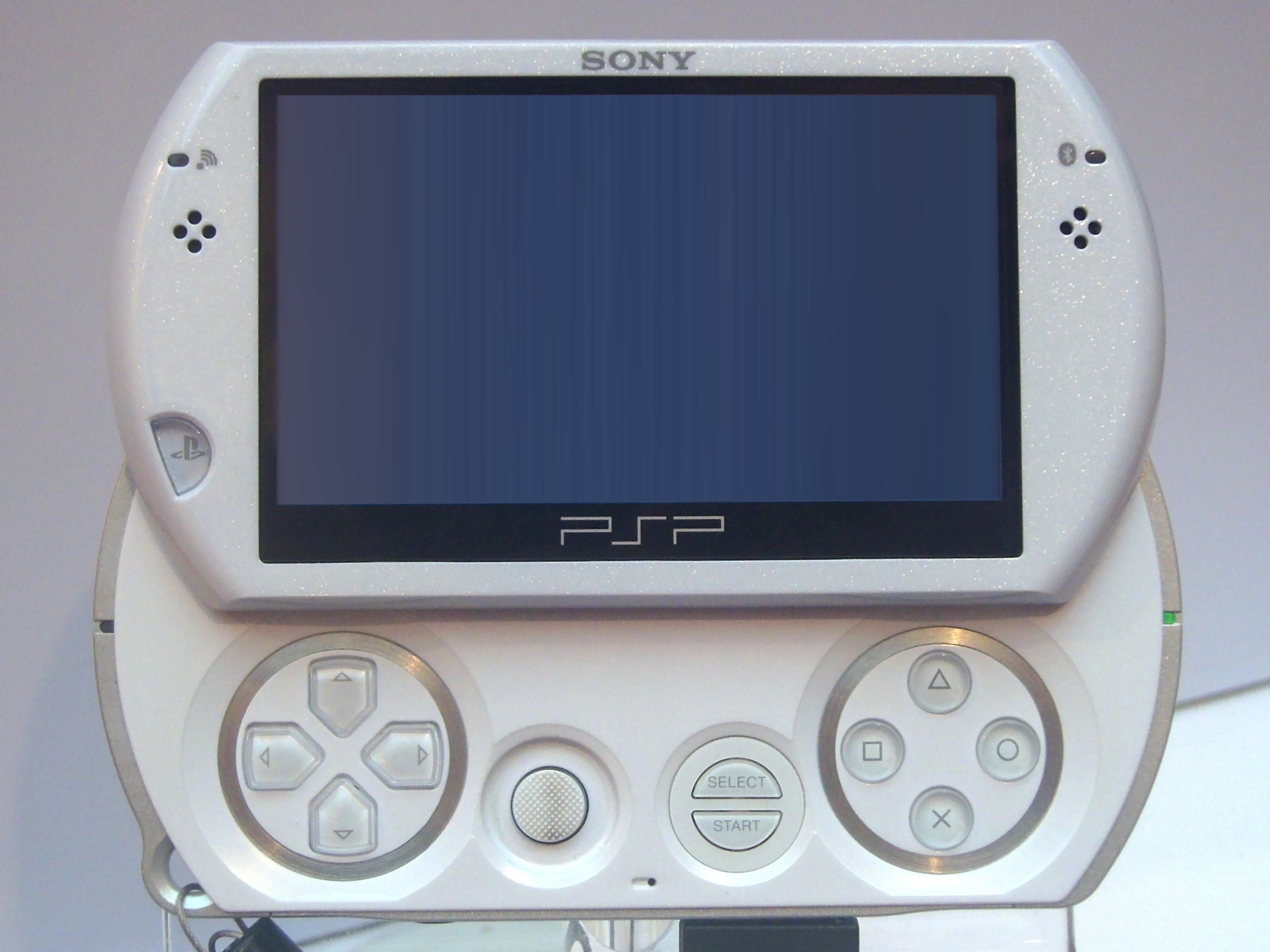 2009 Taipei IT Month: Sony PSPgo in white